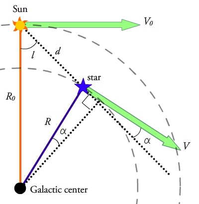 Geometry used in deriving the Oort constants.